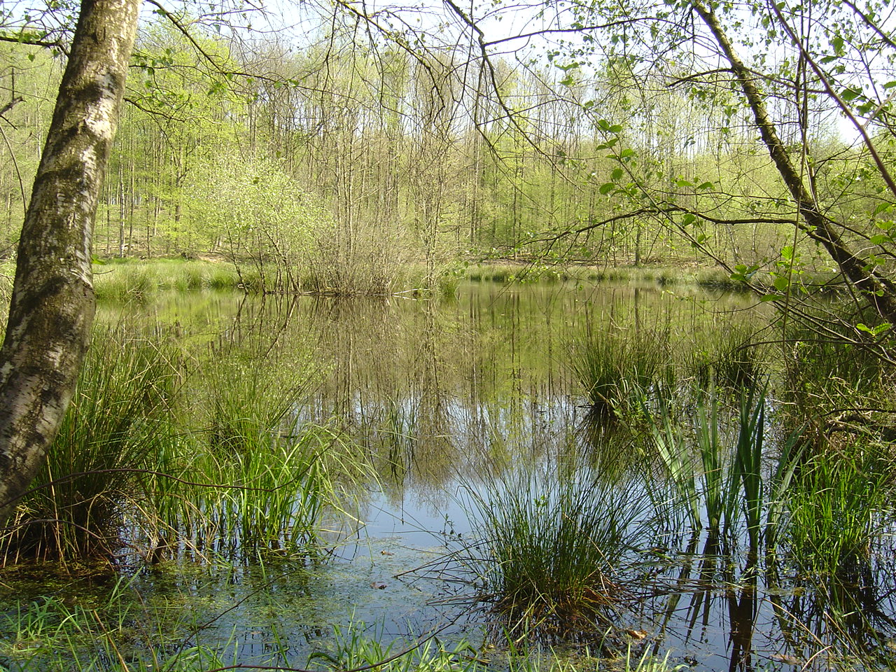 The "Breitsee", a turf moor amidst the forest of Möhlin